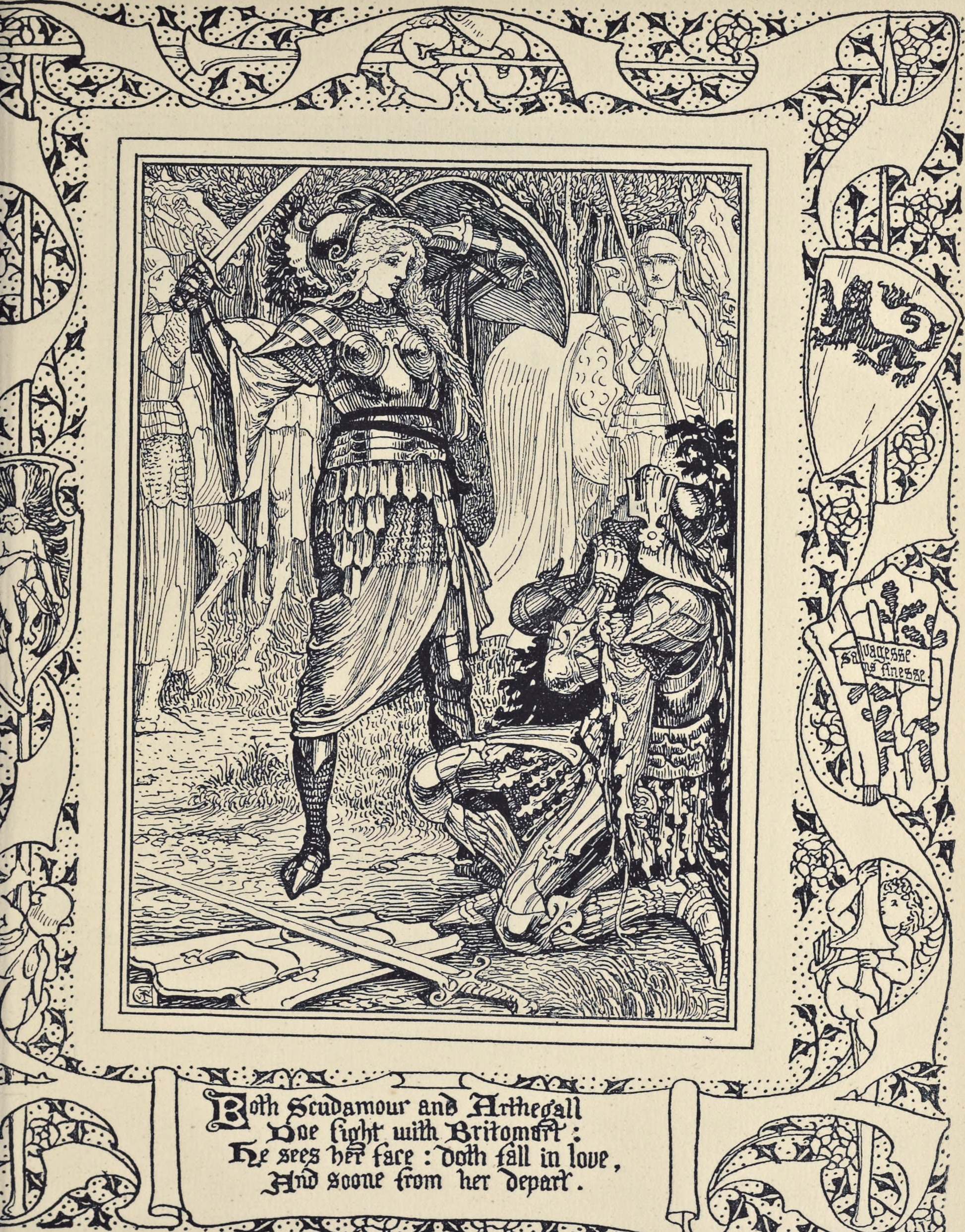 Title: Spenser's Faerie queene. A poem in six books; with the fragment Mutabilite Year: 1895 (1890s) Authors: Spenser, Edmund, 1552?-1599 Wise, Thomas James, 1859-1937 Crane, Walter, 1845-1915 Subjects: Publisher: London, G. Allen Text Appearing Before Image: ' Text Appearing After Image: ofli €ftubamour an& 33jttie£2iU lie jsres W fare :~Drih fall in loue,jiifr gfooiie from lier fcepart.